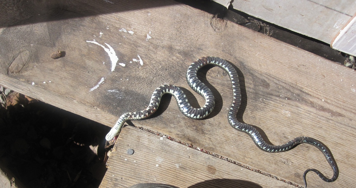 Grass snake (Natrix natrix) playing dead, Järna countryside, Sweden.